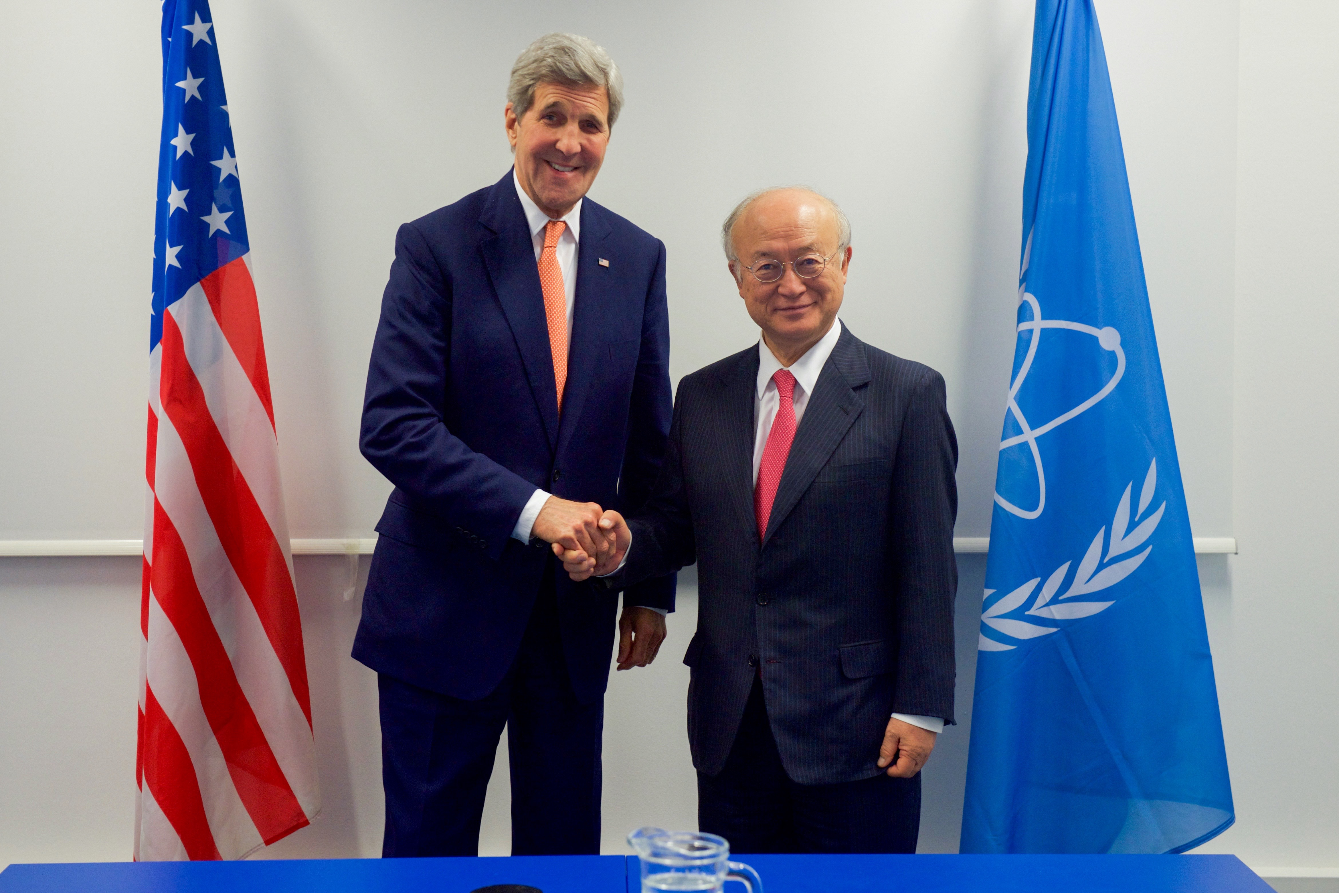 U.S. Secretary of State John Kerry poses with International Atomic Energy Agency Director General Yukiya Amano at the Vienna International Center in Vienna, Austria, on January 16, 2015, after the agency provided a certification that allowed implementation of the Joint Comprehensive Plan of Action outlining the shape of Iran's nuclear program.